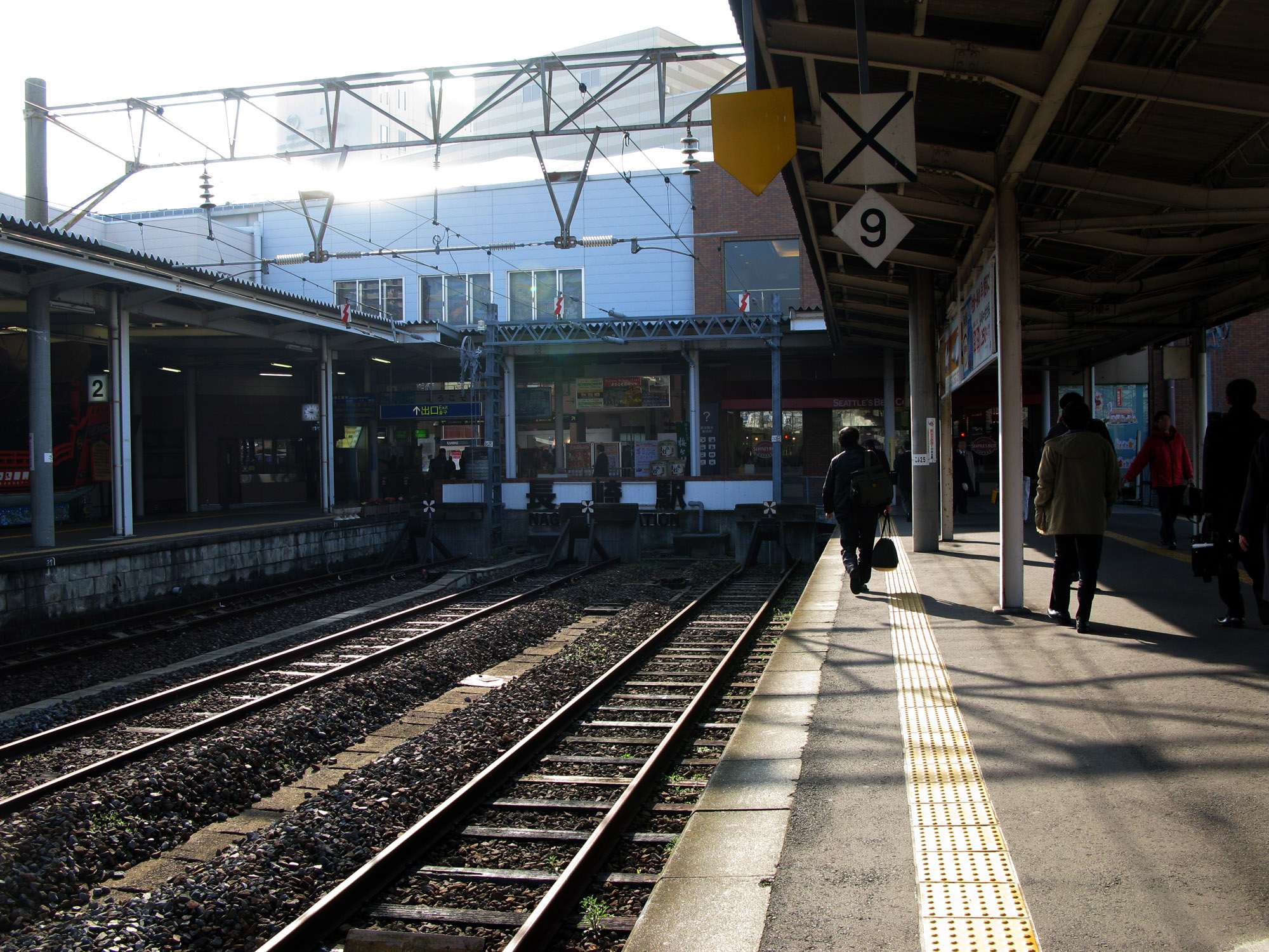 Nagasaki Main Line Terminal